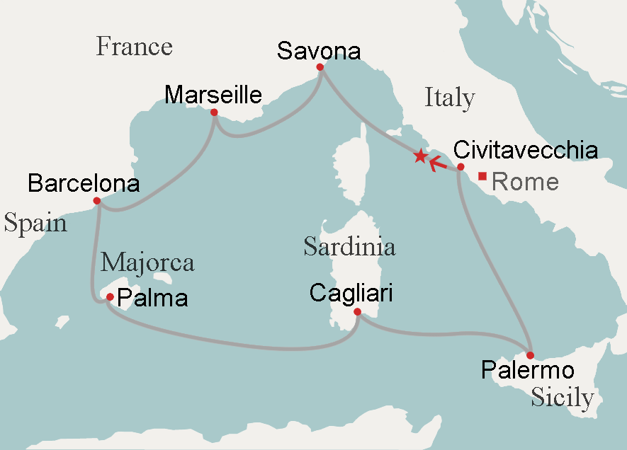 Route of Costa Concordia